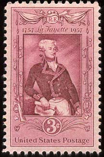 US postage stamp, 1957.